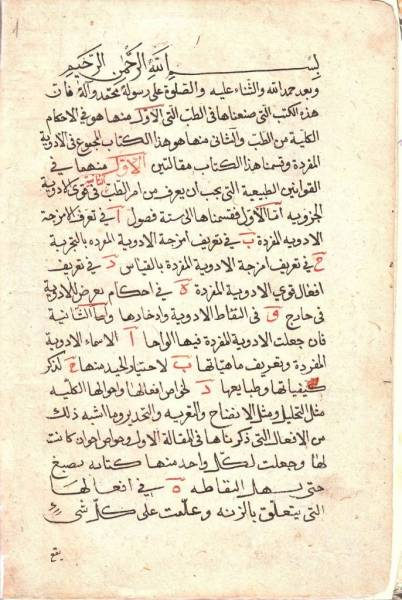 page from one of the oldest copies of the second volume of "Canon Of Medicine" by Avicenna (980-1037). The Institute of Manuscripts of Azerbaijan National Academy of Sciences "The Institute's version of the manuscript was copied in 1143, a little more than 100 years after the text was written. It is one of the oldest Avicenna manuscripts in the world and is considered to be the most reliable." [1]